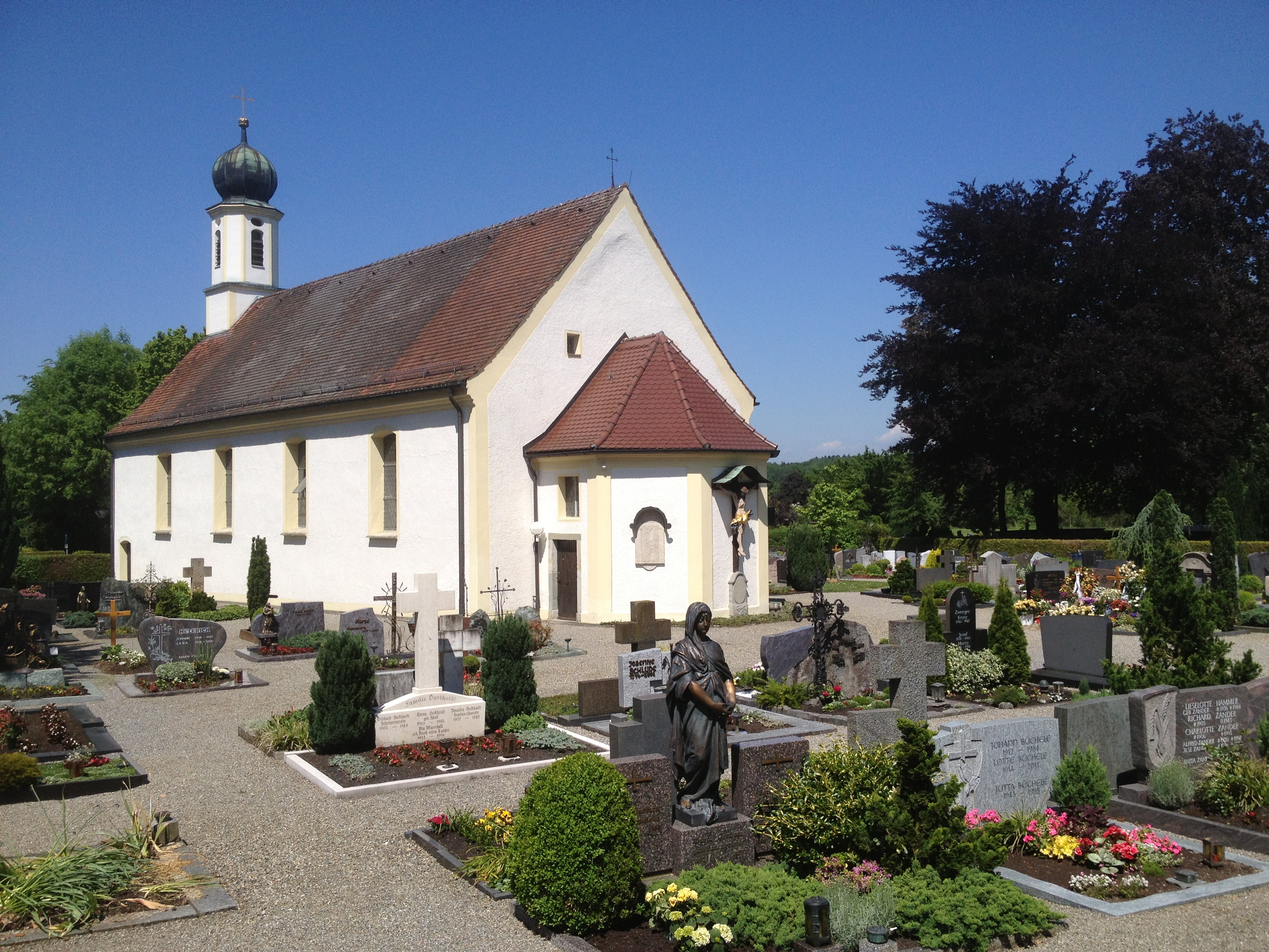 Germany - Baden-Württemberg - district Ravensburg - Ravensburg - Weißenau - Mariatal: church and cemetery